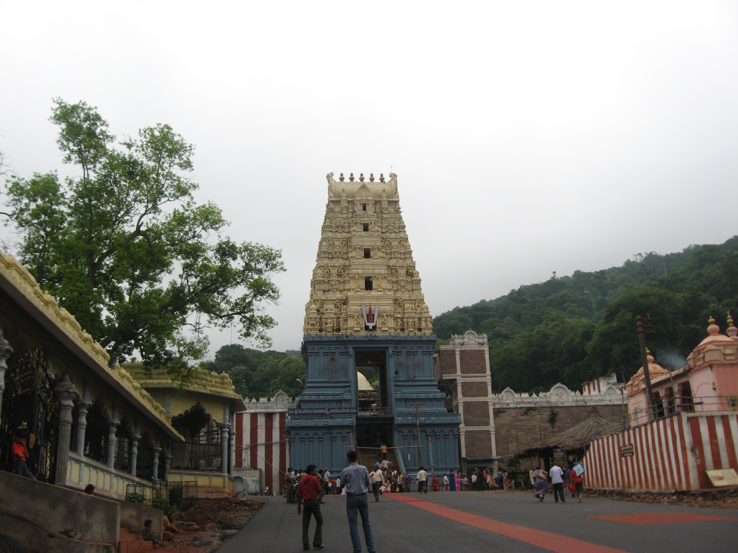 Roads laid up to the Gopuram, or the entrance to the Simhachalam Temple.